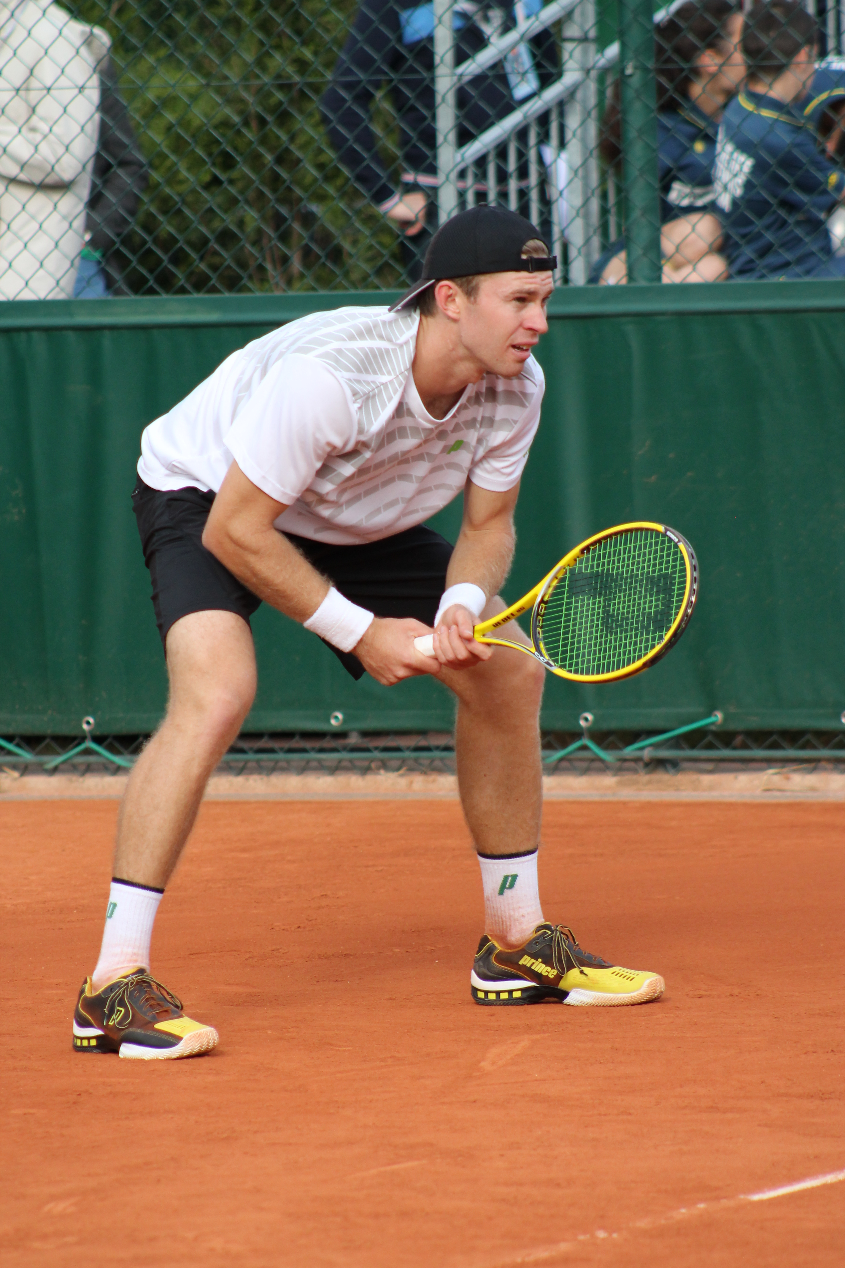 John Peers playing at Roland Garros 2013